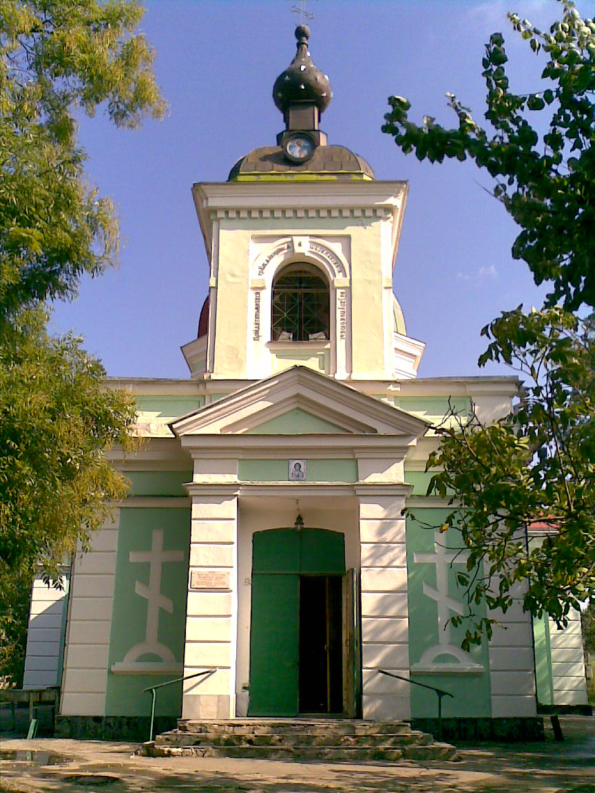 Church of all saints in Kherson-02